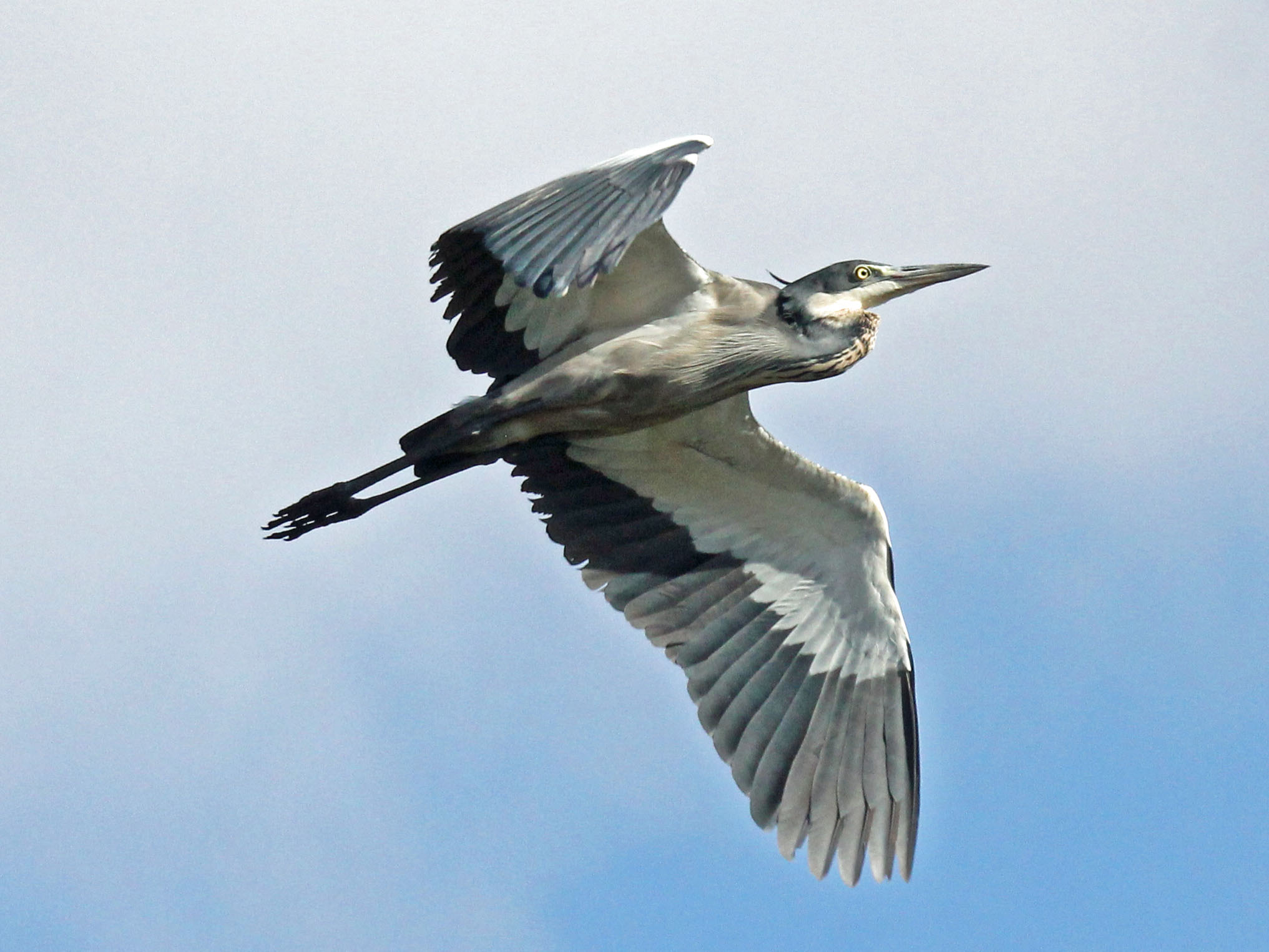 Black-headed Heron (Ardea melanocephala) - Keekorok Lodge in the Masai Mara, Kenya